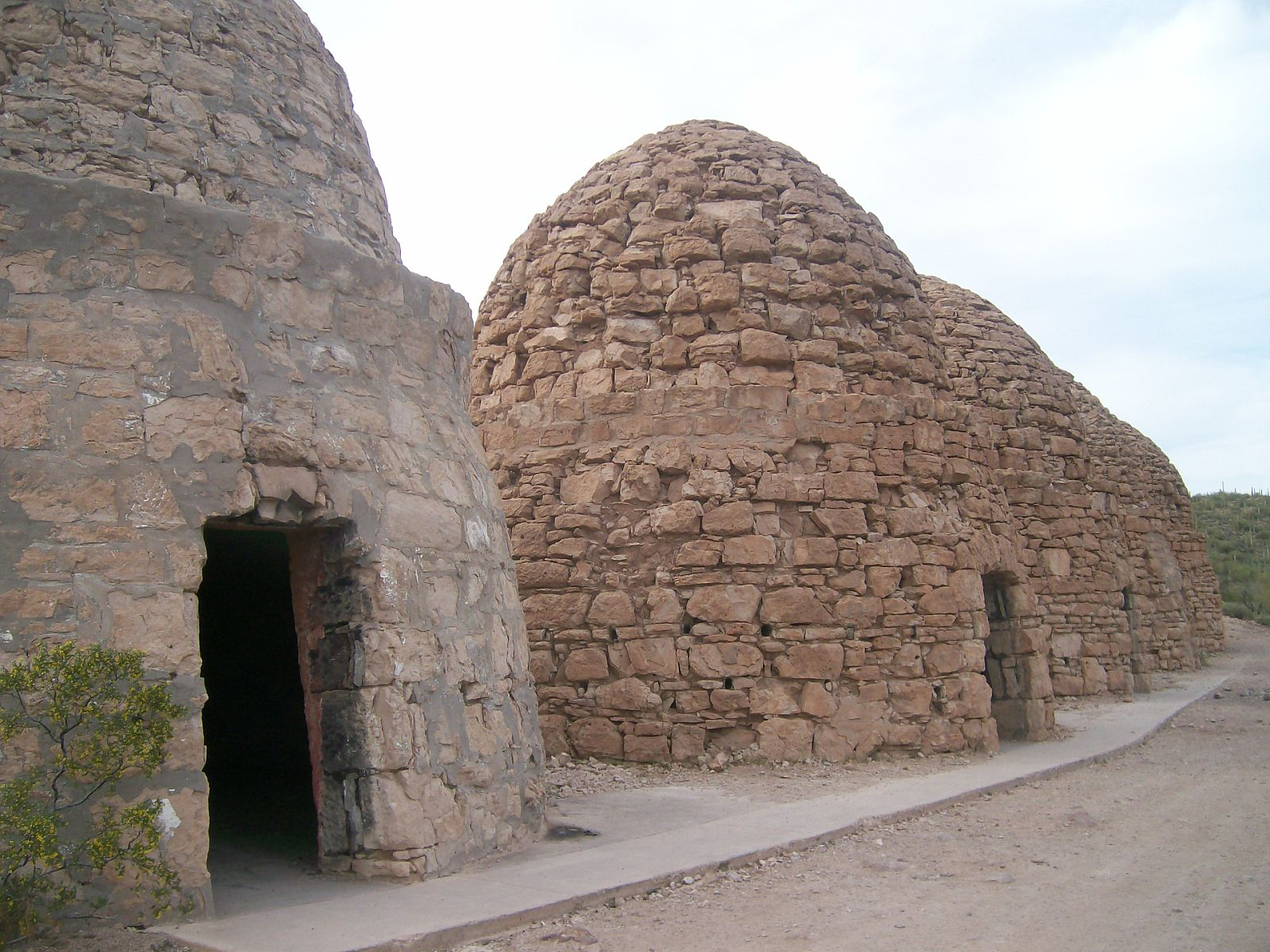 Photo of the coke ovens near the ghost town of Cochran, Arizona